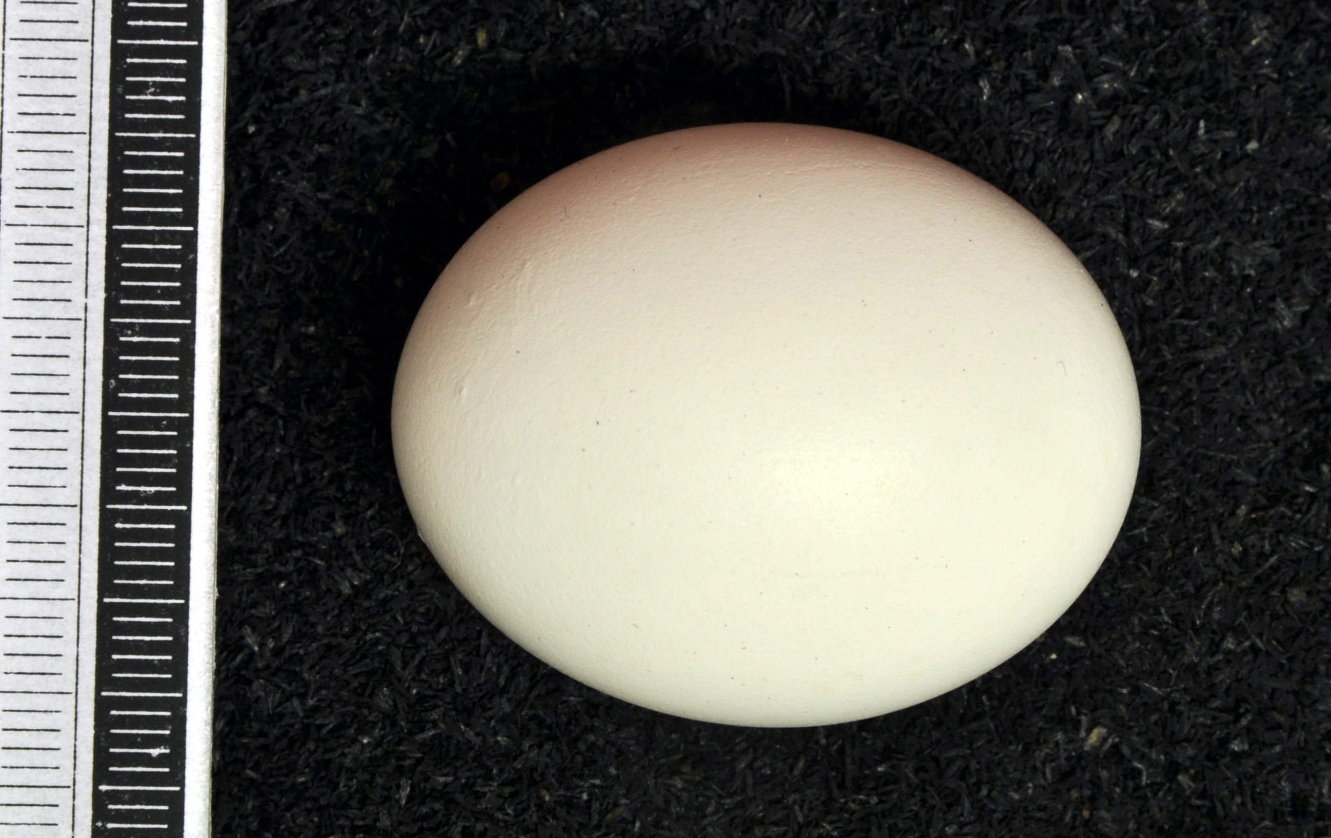 Long-eared owl Asio otus , egg, Coll. Museum Wiesbaden